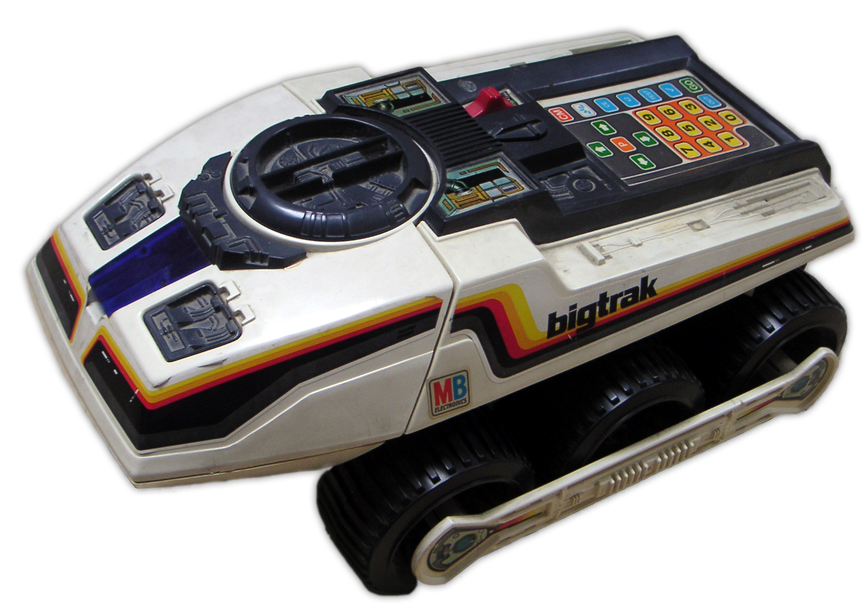 Photograph of a Big Trak from GB (White plastic, with small letters). Background has been removed.